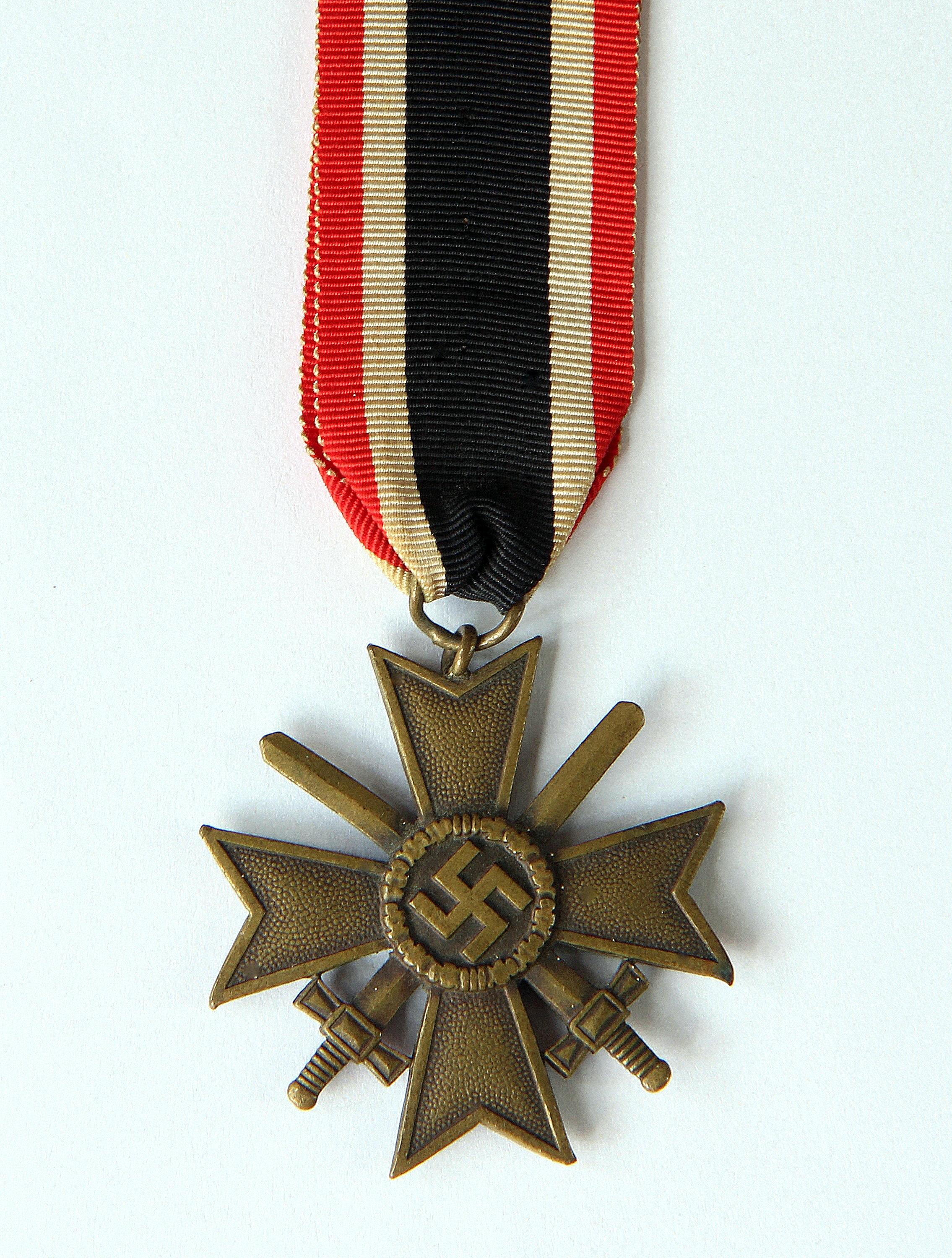 German War Merit Cross with Swords, Second Class